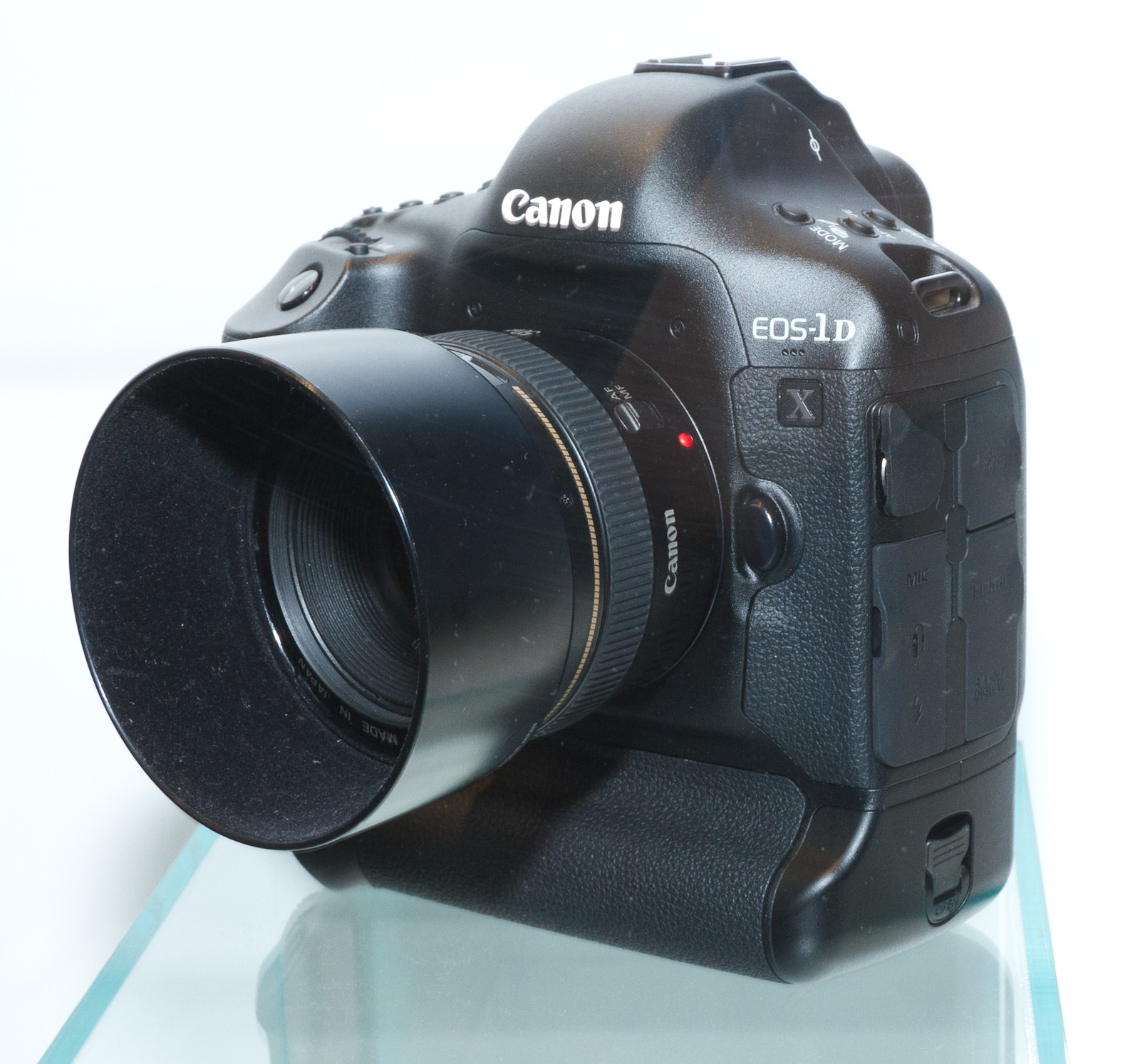 CP+ 2012: 2012 Canon EOS-1D X